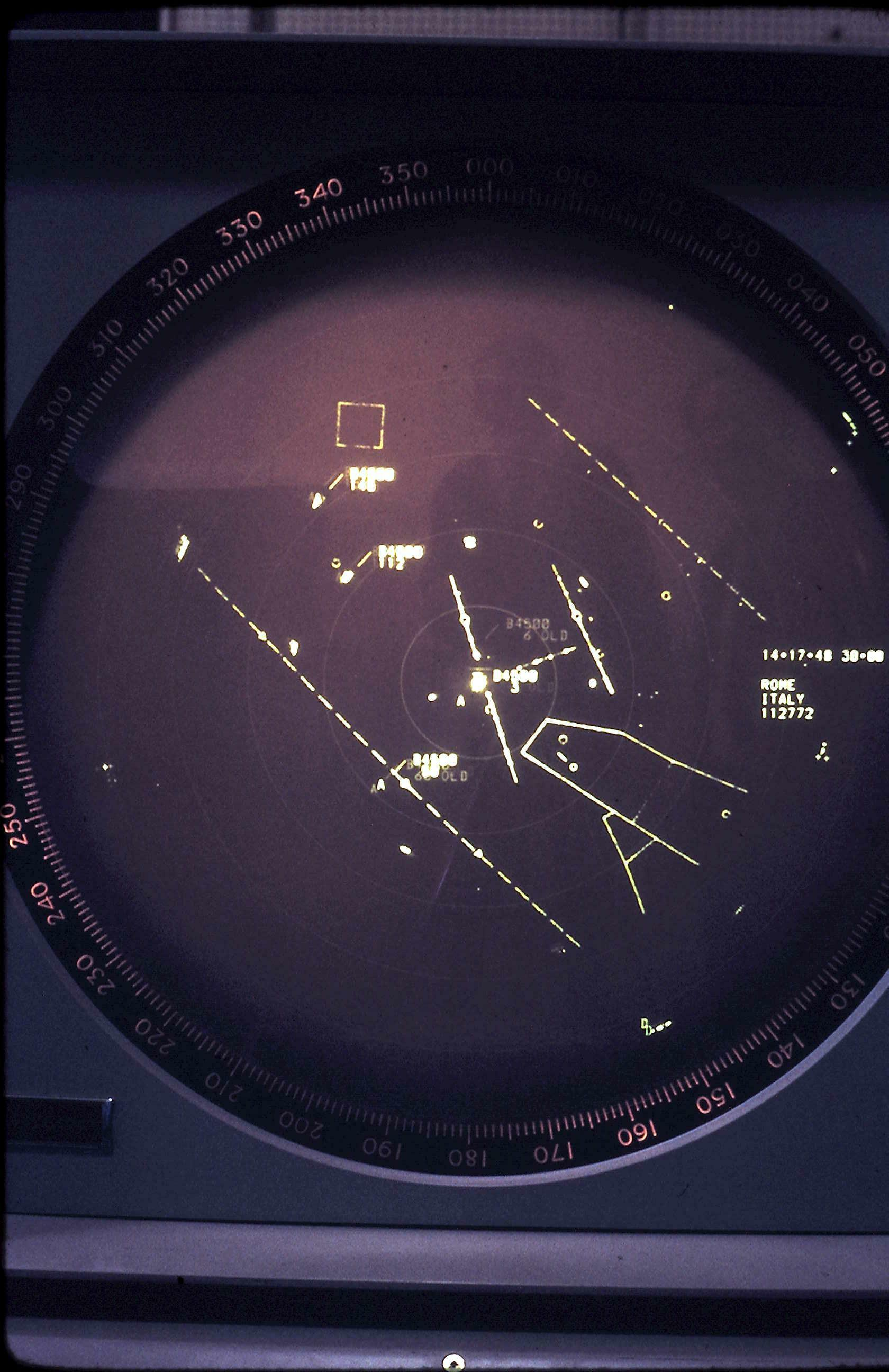 Display for Air traffic Control Demonstration in Rome